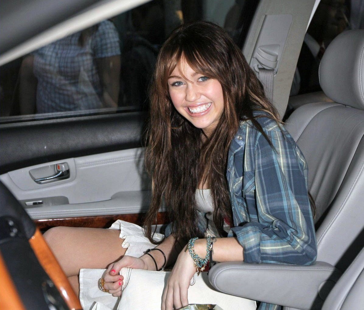 Miley Cyrus in April 2008